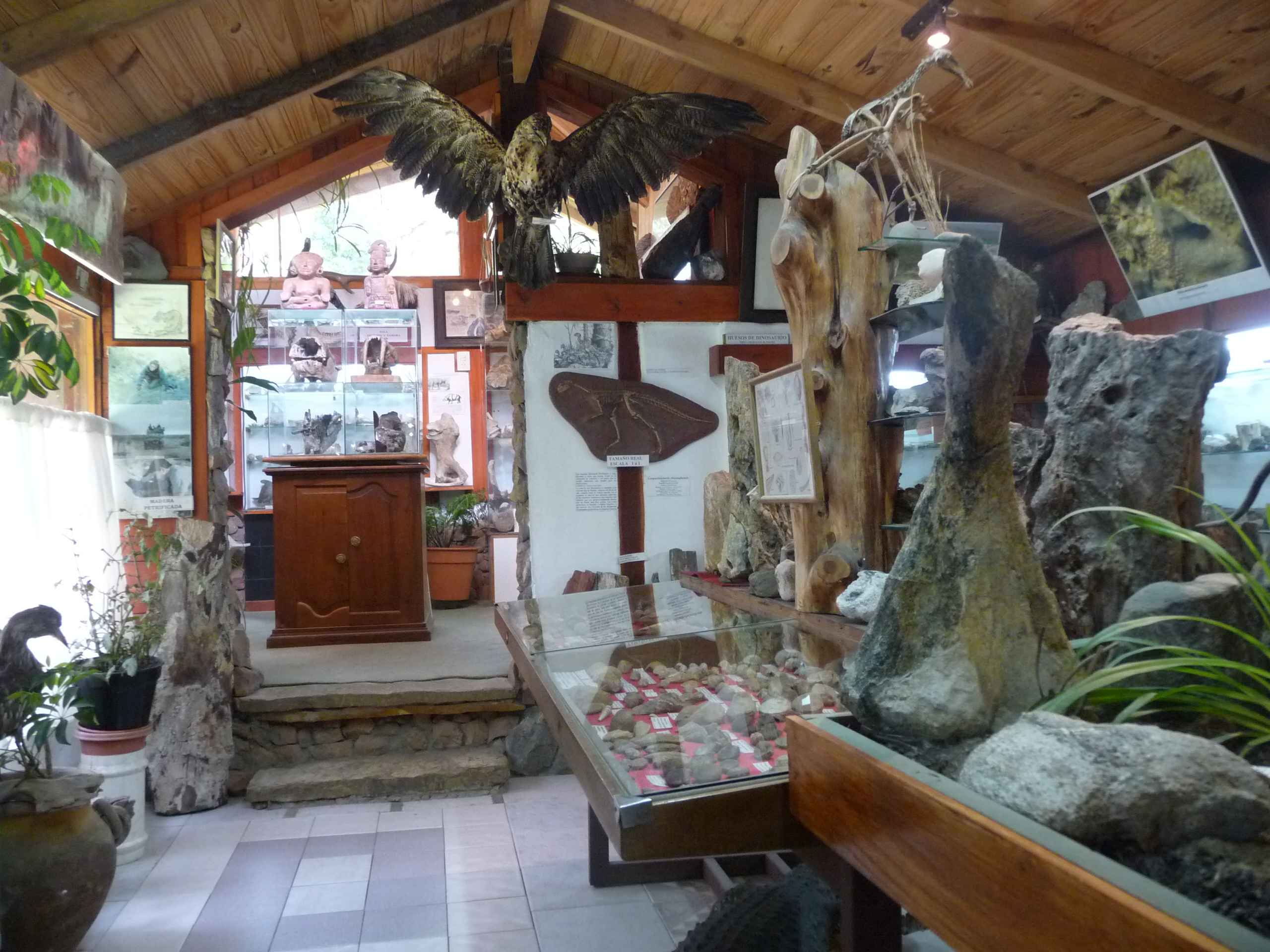 One of the rooms in the "Dr. Rosendo Pascual" geolocical and paleonthological museum in Villa los Coihues, Lago Gutiérrez, Argentina.